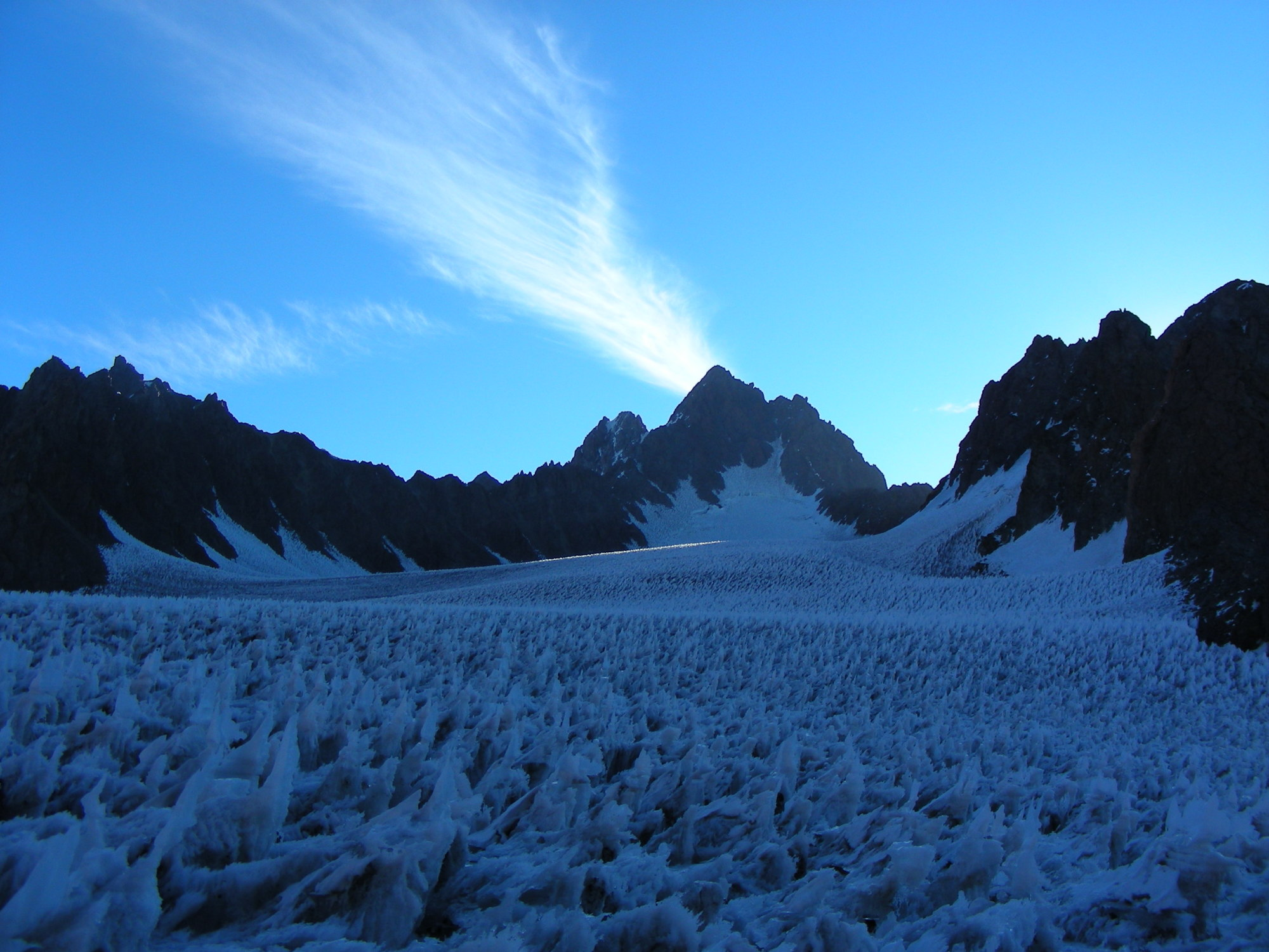 East summit of Tres Picos del Amor in Argentina.